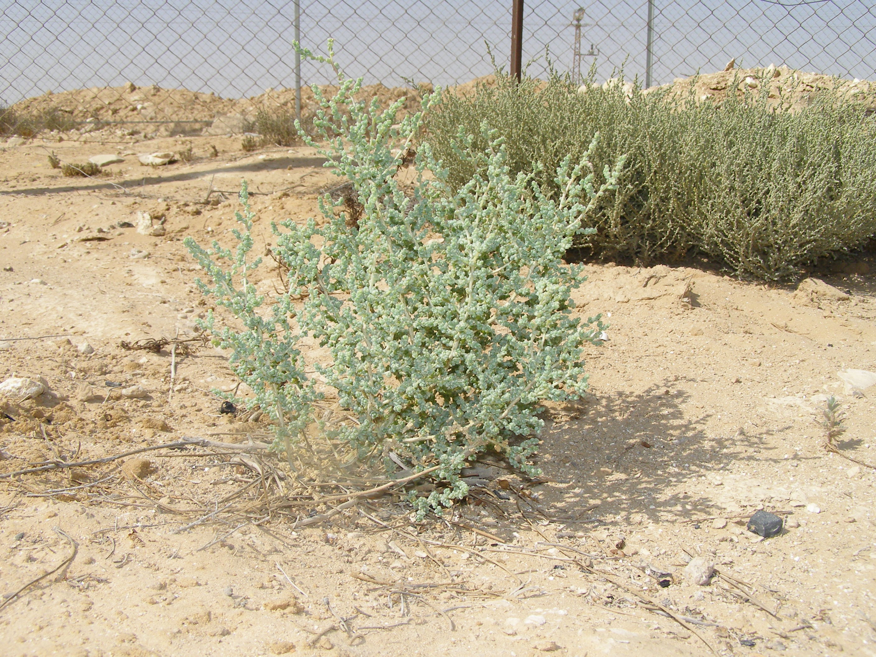 Atriplex polycarpa. Commonly referred to as Allscale or Cattlebush.